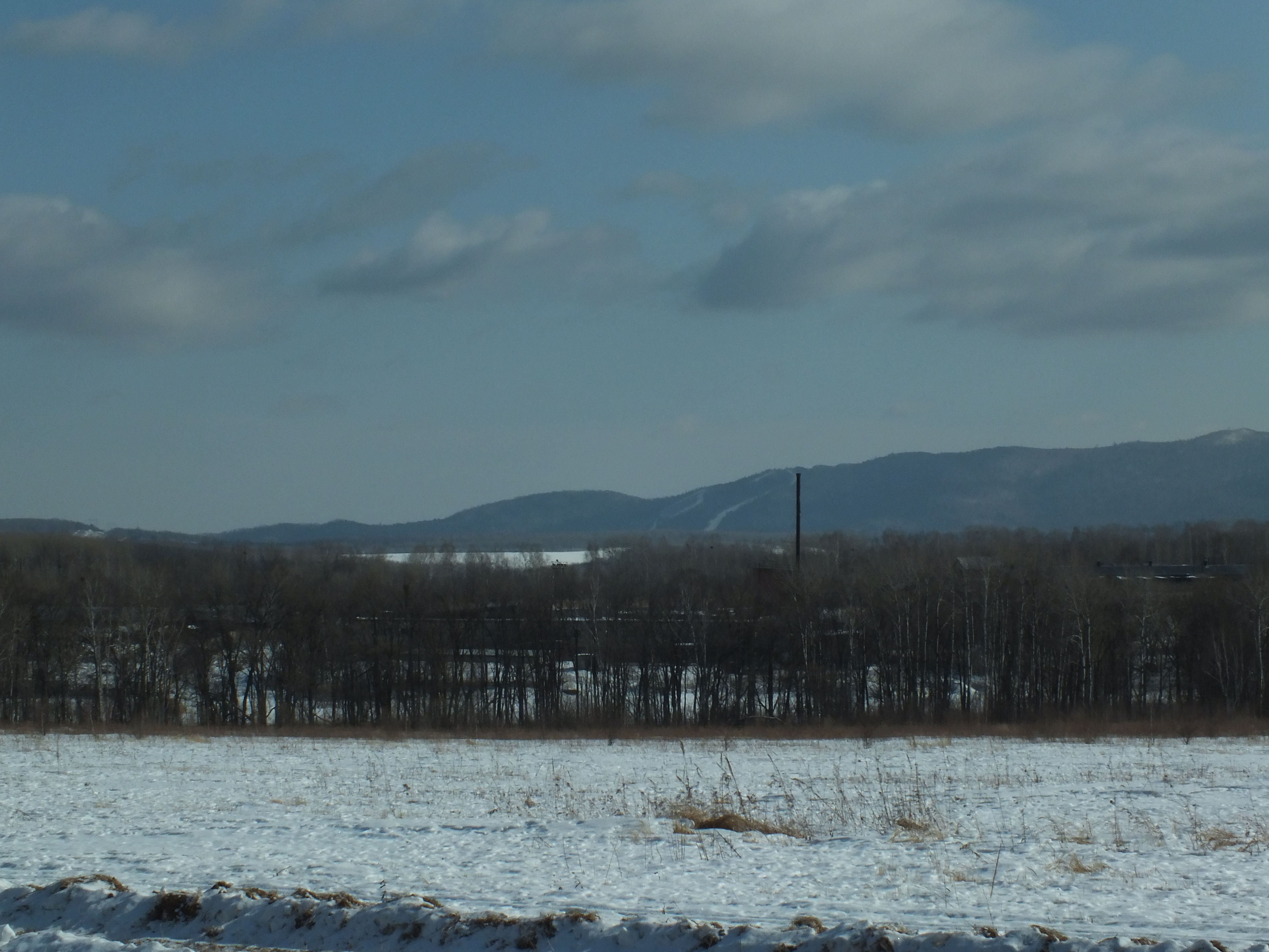 Khabarovsk Krai